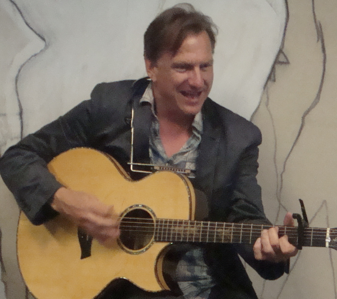 Ellis Paul performing at the University of Maine at Presque Isle the day following giving the commencement address at the 105th UMPI commencement and being awarded an honorary Doctor of Humane Letters degree. May 18, 2014.